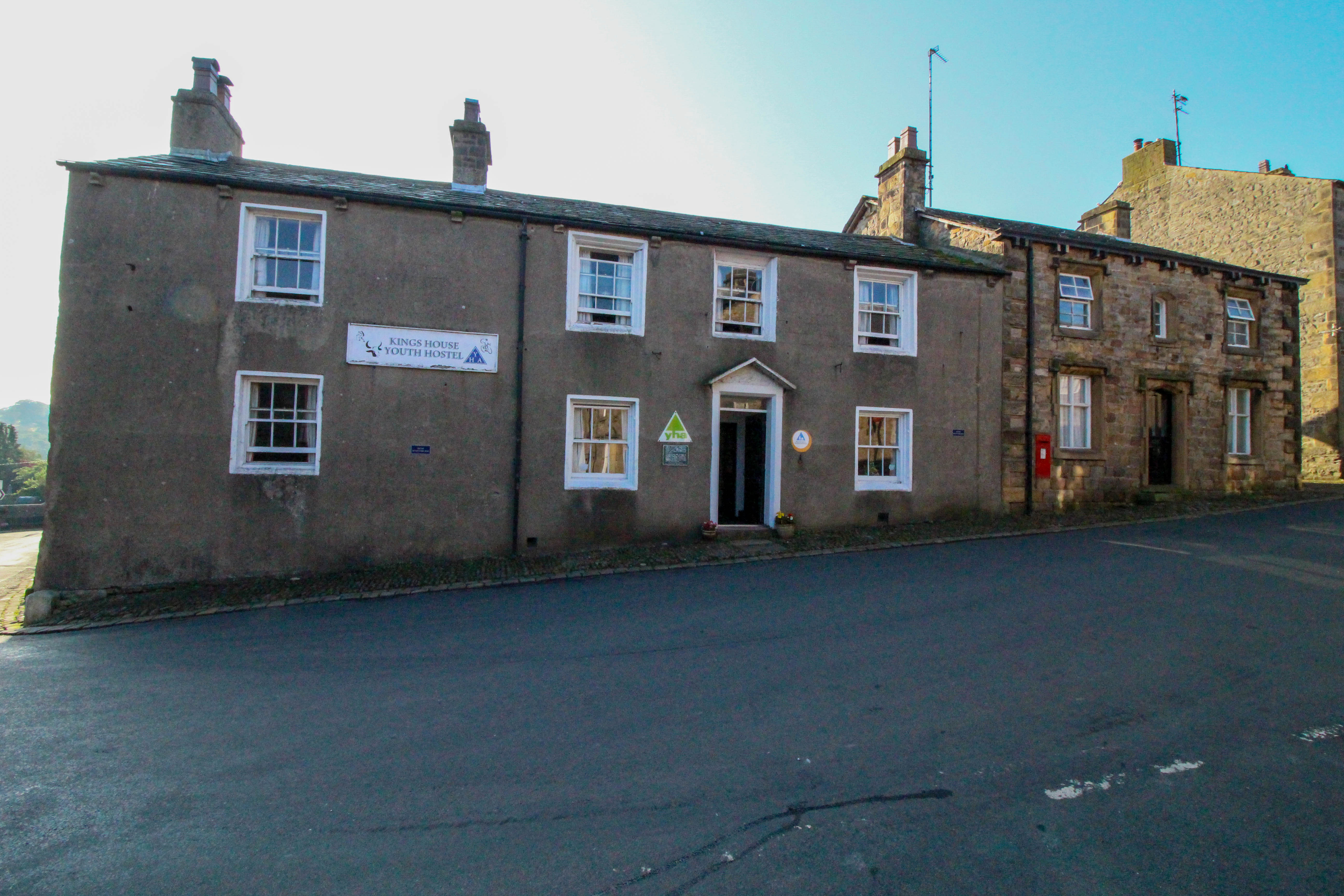 Slaidburn (Kings House) youth hostel, Lancashire, England. Formerly the Black Bull public house and the Post Office. Both buildings are Grade II listed.